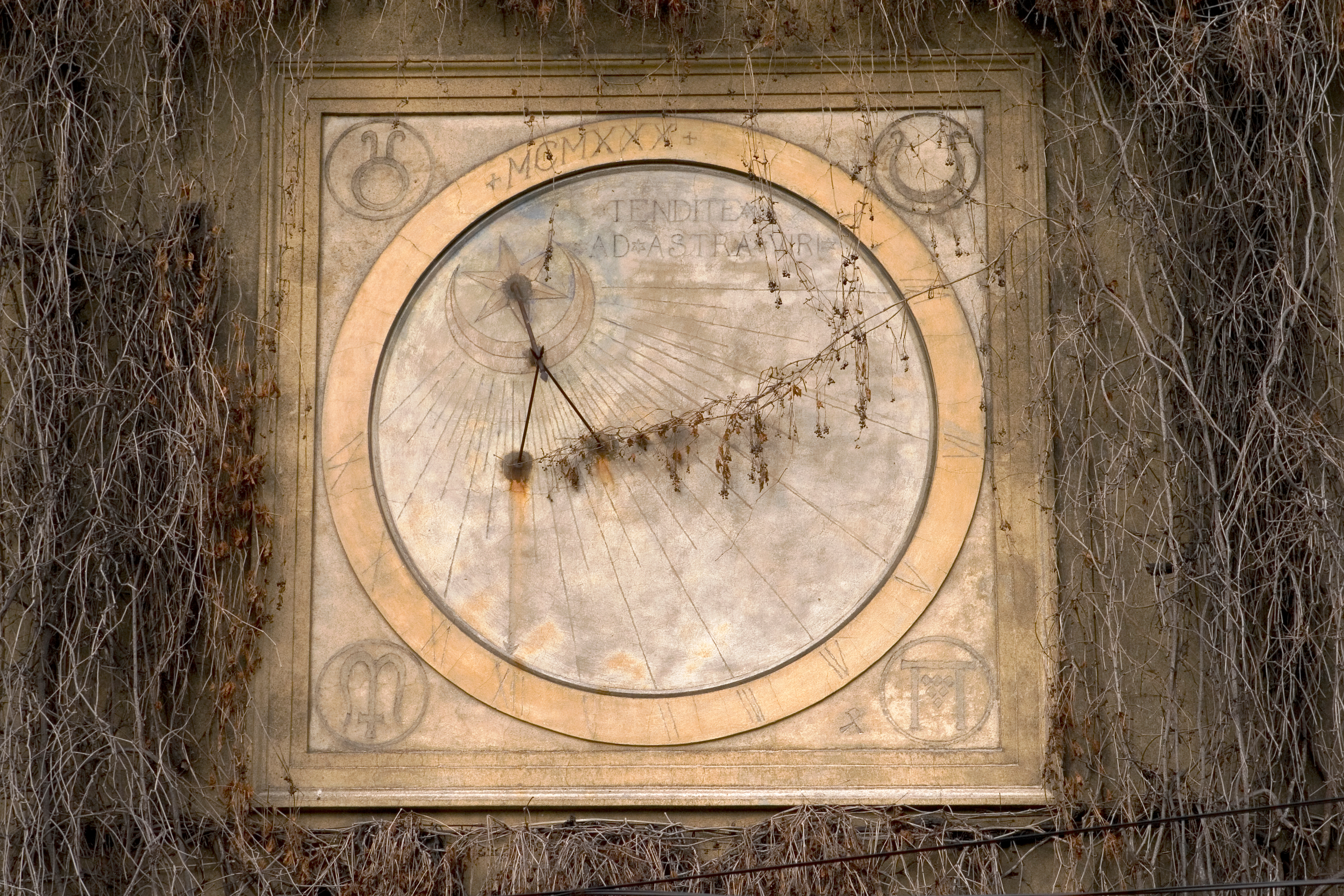 Sundial Dzików Castle (before renovation) showing Latin motto of the House of Tarnowski: "Tendite ad astra viri".